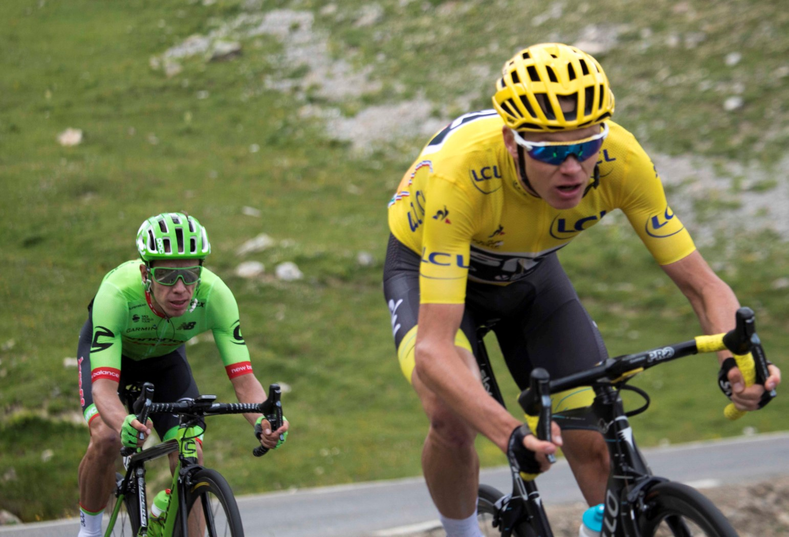 19-7_4 froome uran